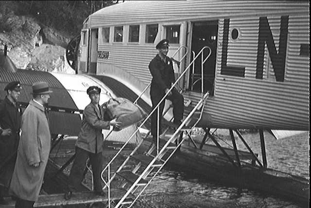 A Det Norske Luftfartsselskap Junker Ju 52 seaplane boarding at Gressholmen Airport in Oslo, Norway.